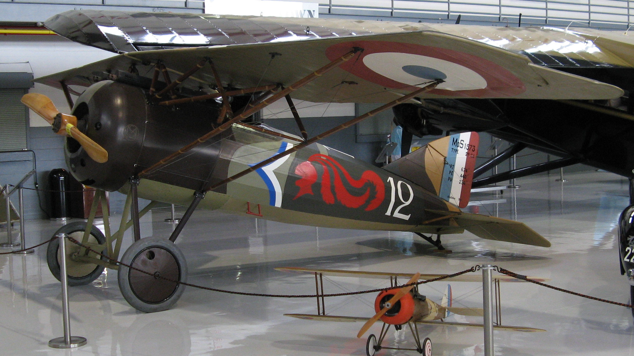 Morane-Saulnier AI / Type 27, Fantasy Of Flight Museum, Florida